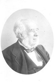 Charles Nicholson (1808-1903)